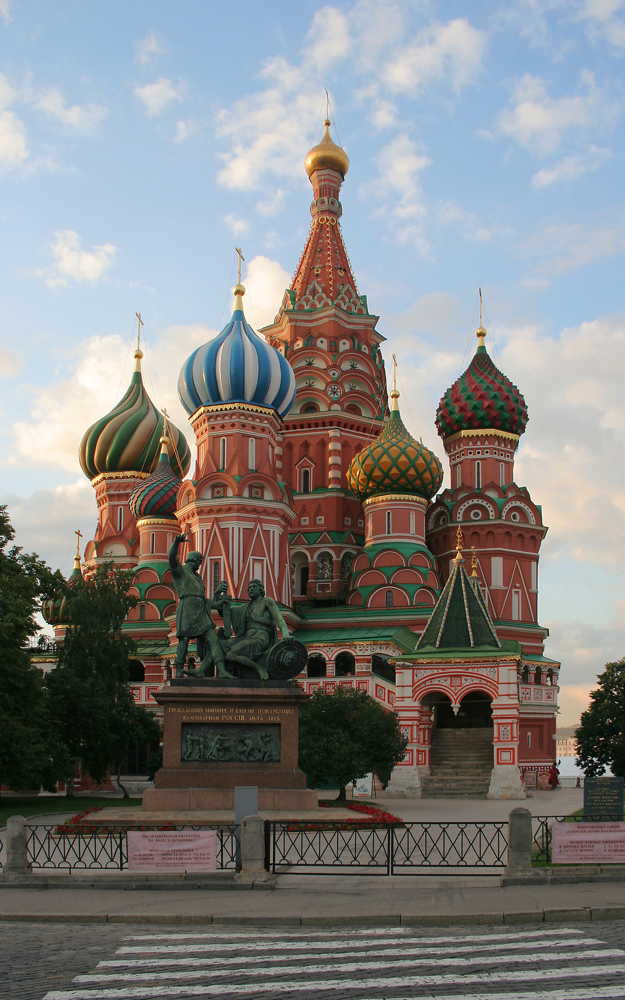 The Saint Basil's Cathedral at the Red Square in Moscow, Russia. The photograph was made early in the morning (approx. 6:00 am), when the square is nearly empty.